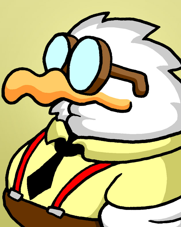 Michael and Stefan Strasser